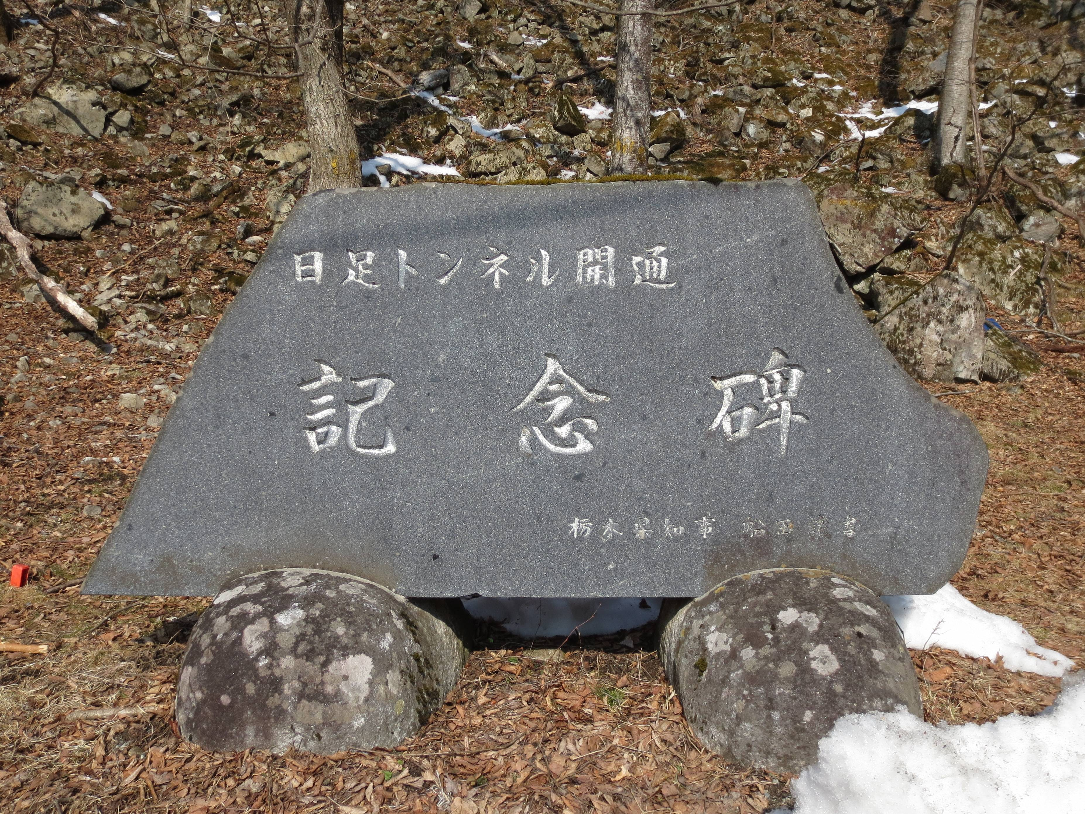 Nissoku Tunnel monument.